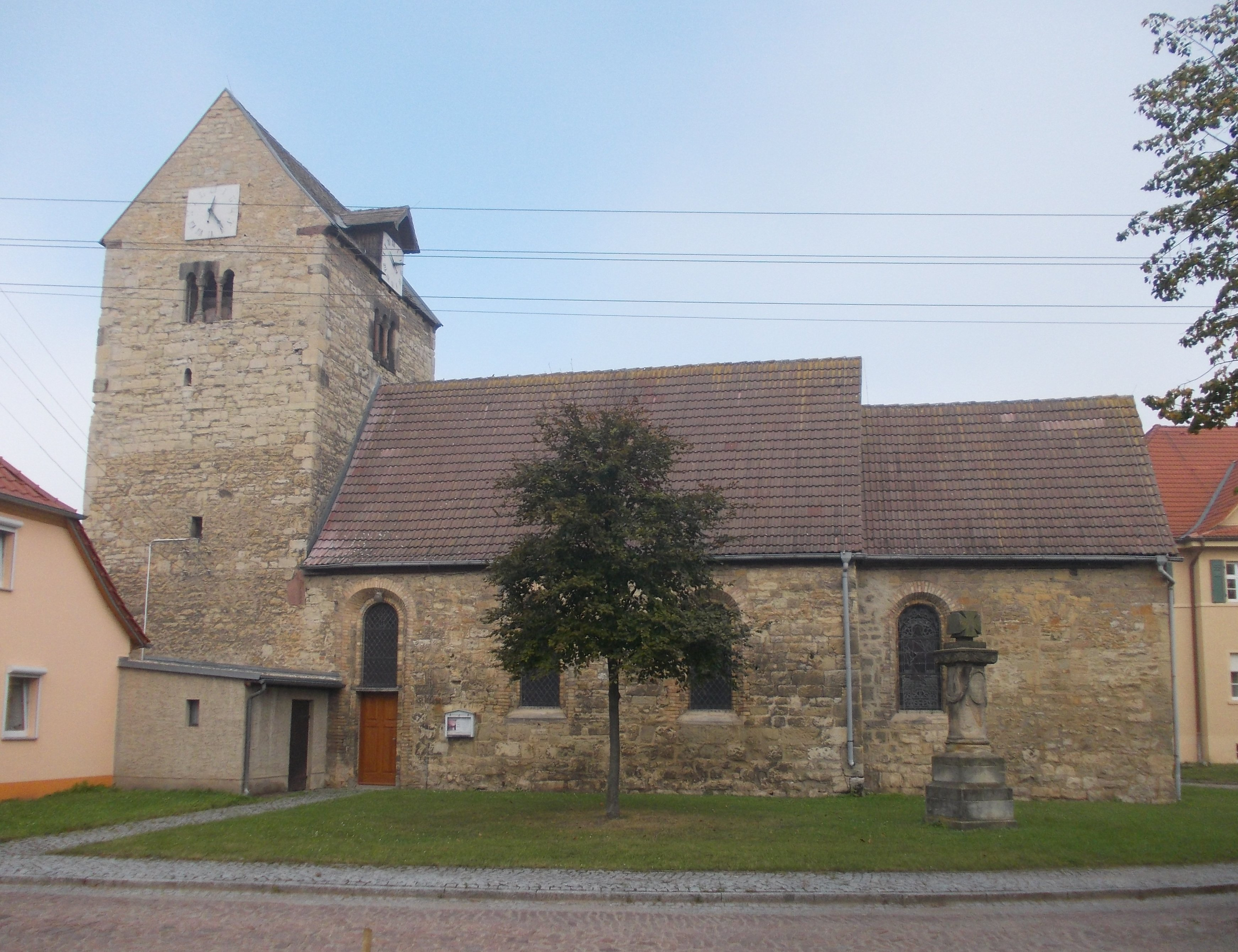 St. Nicholas' Church in Asendorf (Teutschenthal, district: Saalekreis, Saxony-Anhalt)